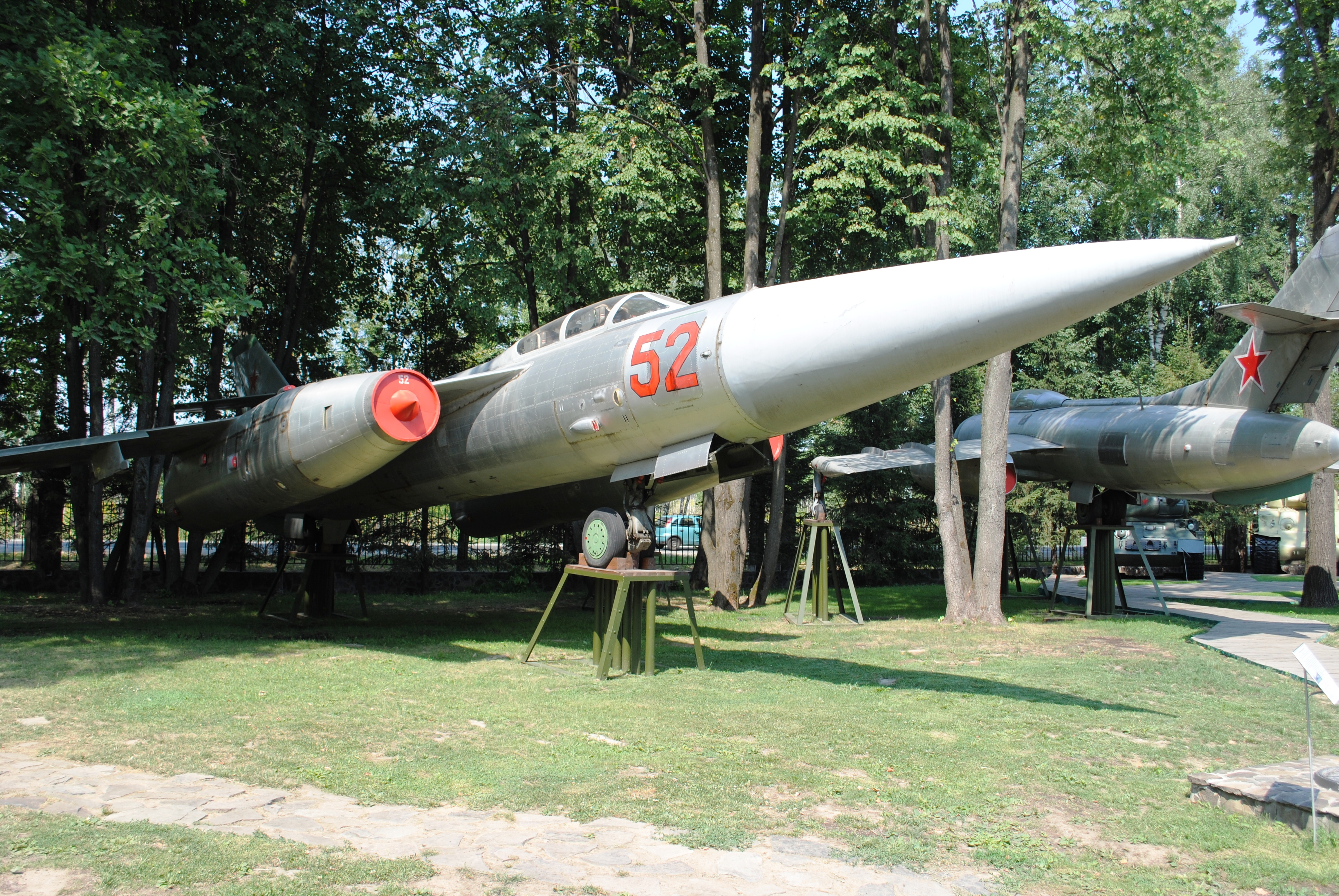 Museum of technique of Vadim Zadorogny. Yak-28P